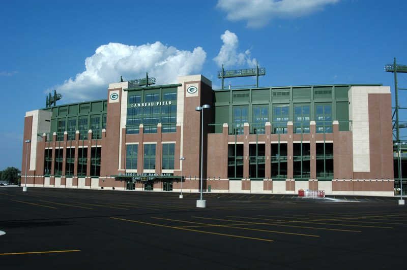 The new Lambeau Field soon after renovation was completed. Photo taken on 29 July 2003 by Paul Kucher. Category:Images of Wisconsin